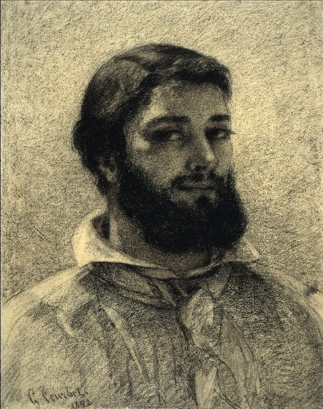 "Self portrait," black chalk and charcoal drawing, by the French artist Gustave Courbet. 570 mm x 450 mm. Courtesy of the British Museum, London.